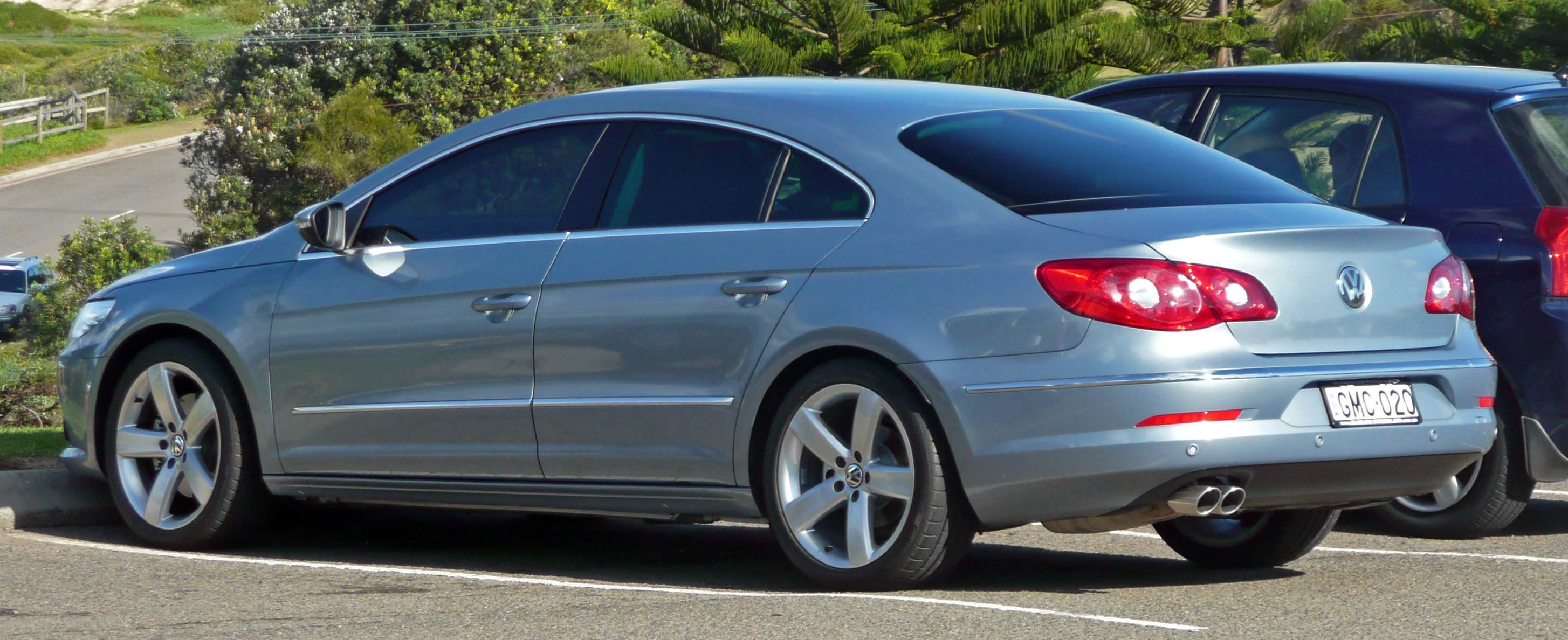 2009–2010 Volkswagen Passat CC 125TDI coupe. Photographed in Cronulla, New South Wales, Australia.